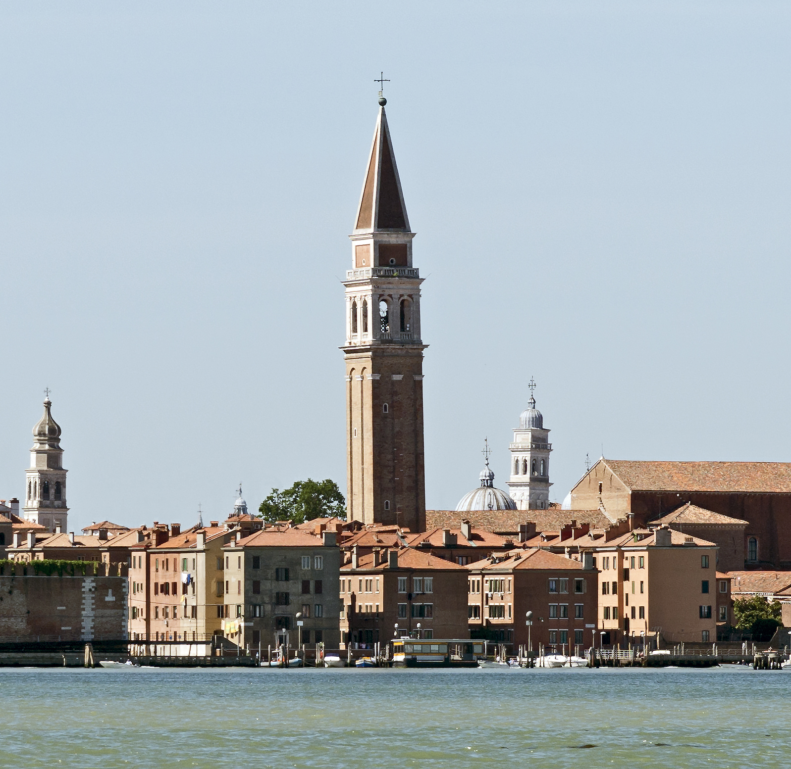 Campanille of Church San Francesco della Vigna (Venice). Vaporetto stops north of Venice : Celestia.